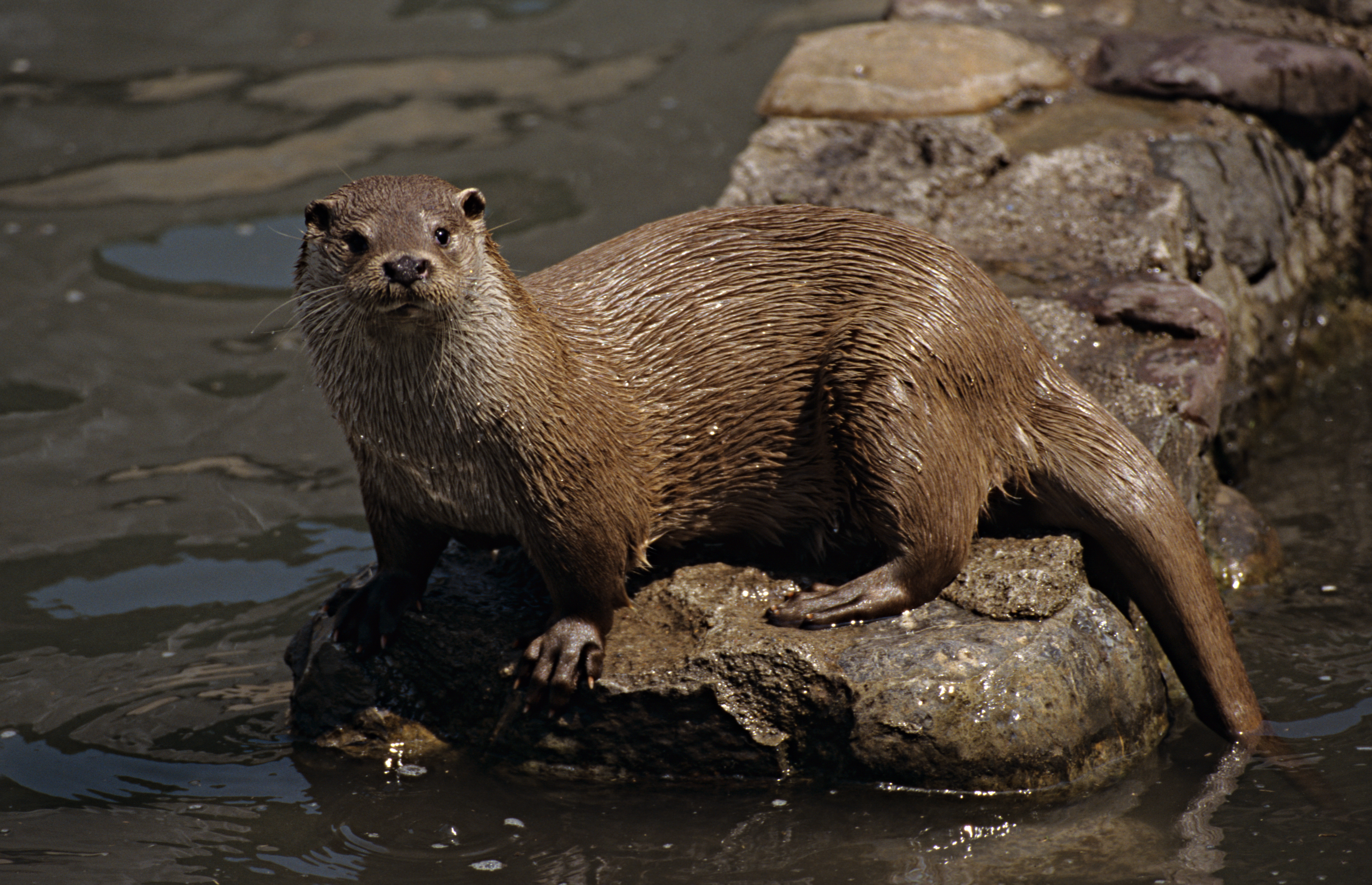 This is a European otter (Lutra lutra). In Spanish this animal is called "nutria", but in many languages "nutria" is the word for Myocastor coypus )